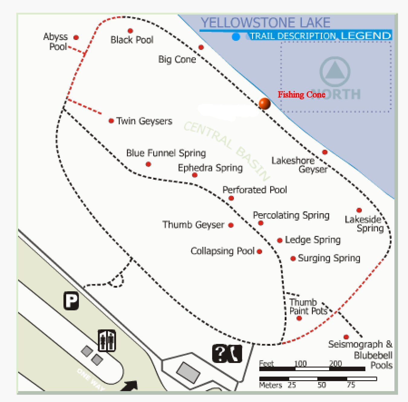 Map of West Thumb Geyser Basin, Yellowstone National Park, Wyoming with Fishing Cone annotated